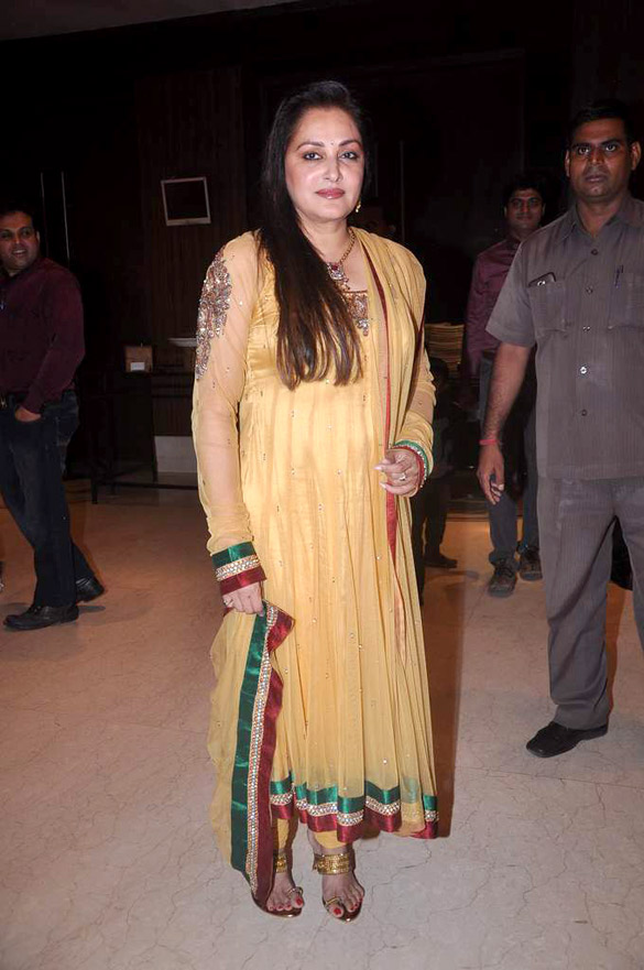 Jaya Prada at the launch of T P Aggarwal's trade magazine 'Blockbuster'